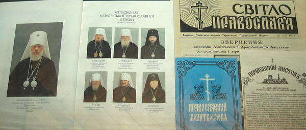 Publications of the Ukrainian Orthodox Church